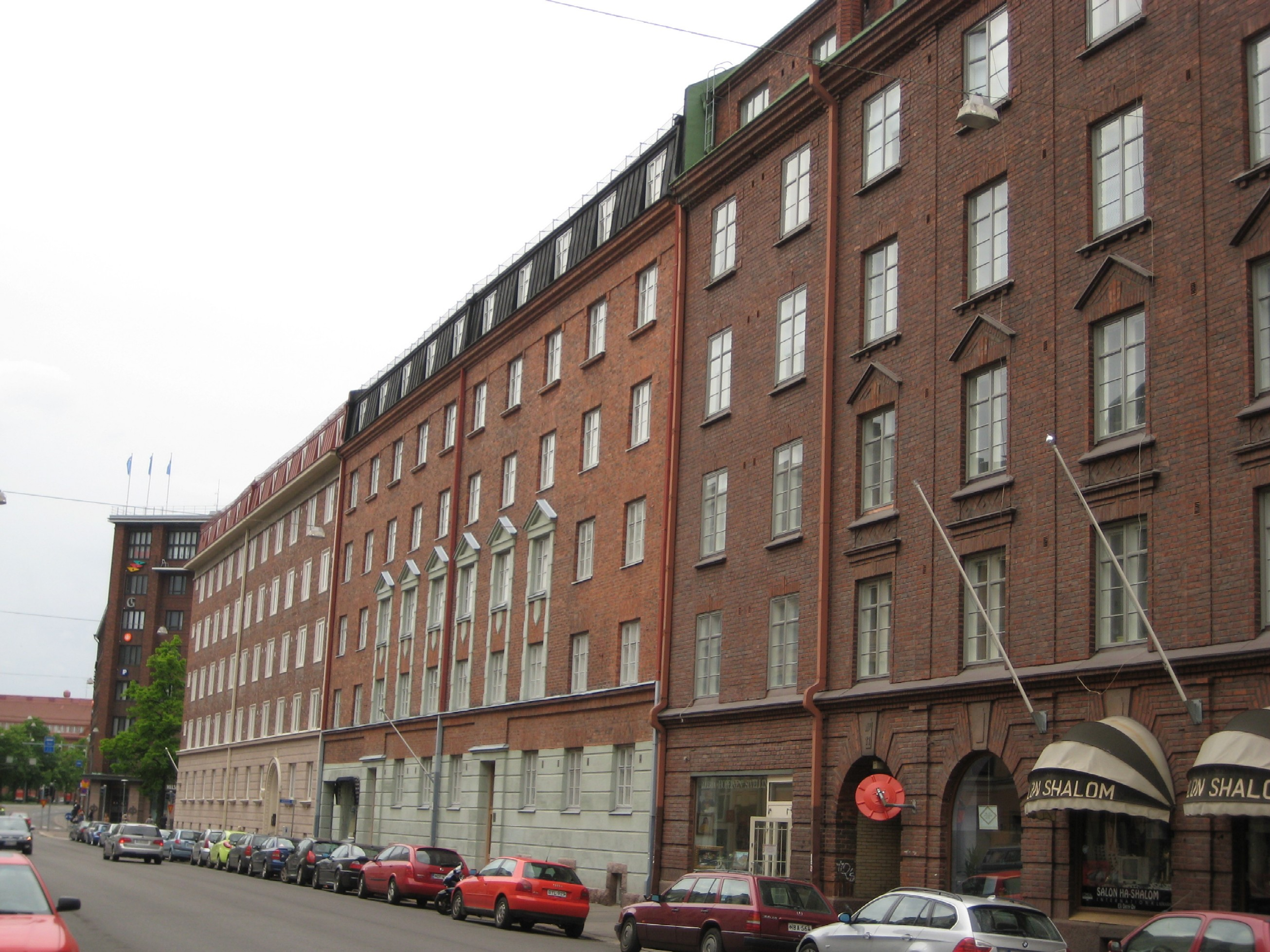 Runeberginkatu 17–21, Etu-Töölö, Helsinki, Finland